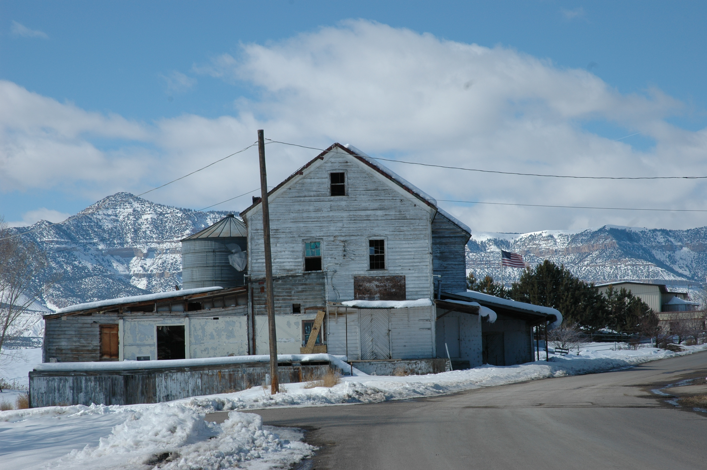 The Huntington Roller Mill, a historic building in Huntington, Utah, United States.